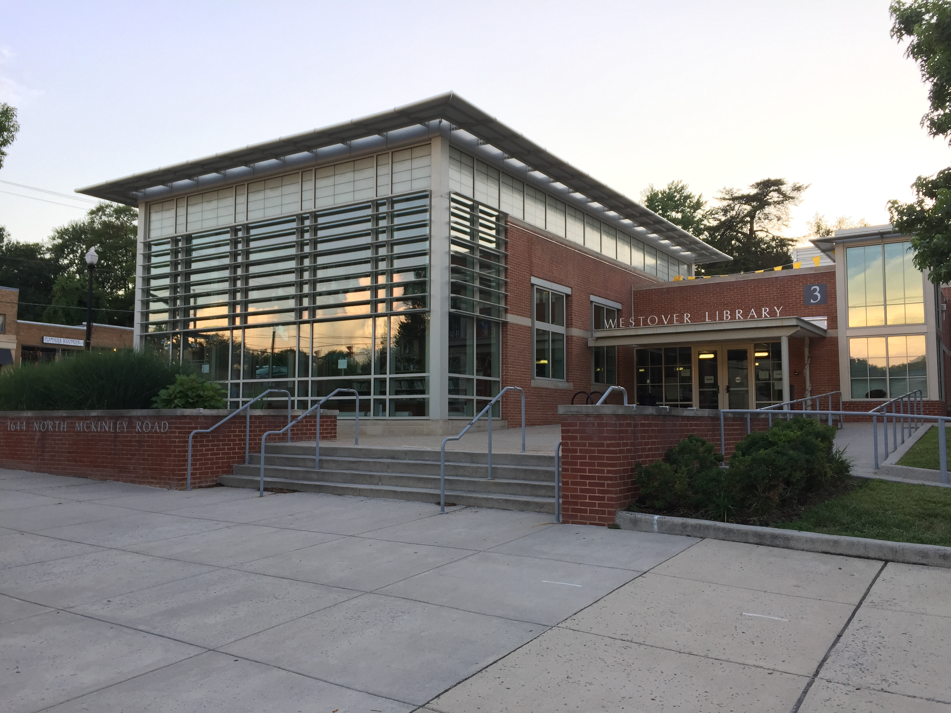 Westover Branch Library of the Arlington Public Library in Westover, Arlington, Virginia in 2017